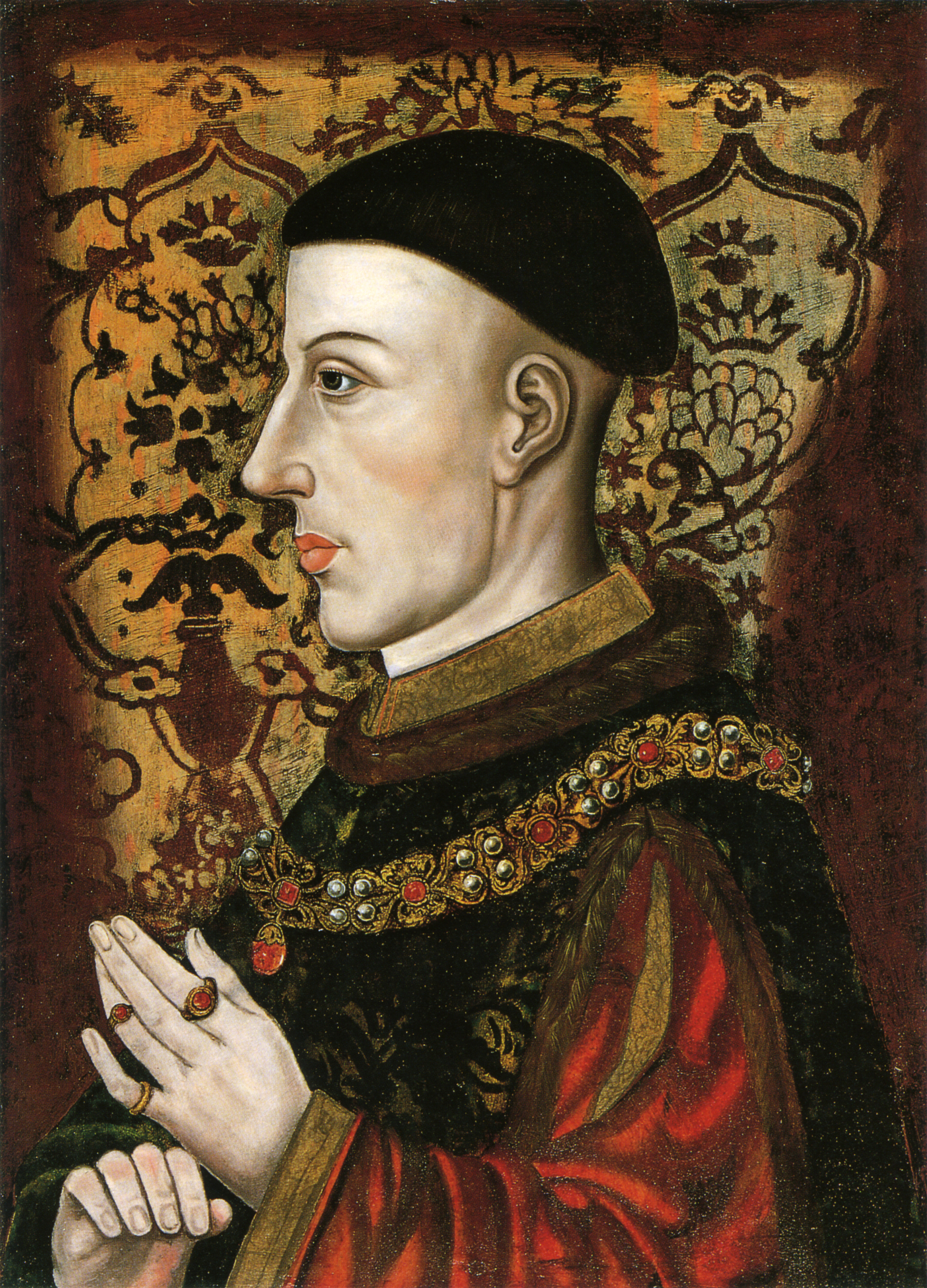 This image is a JPEG version of the original PNG image at File: King Henry V.png. Generally, this JPEG version should be used when displaying the file from Commons, in order to reduce the file size of thumbnail images. However, any edits to the image should be based on the original PNG version in order to prevent generation loss, and both versions should be updated. Do not make edits based on this version. See here for more information. King Henry V, by Unknown artist, late 16th or early 17th century.